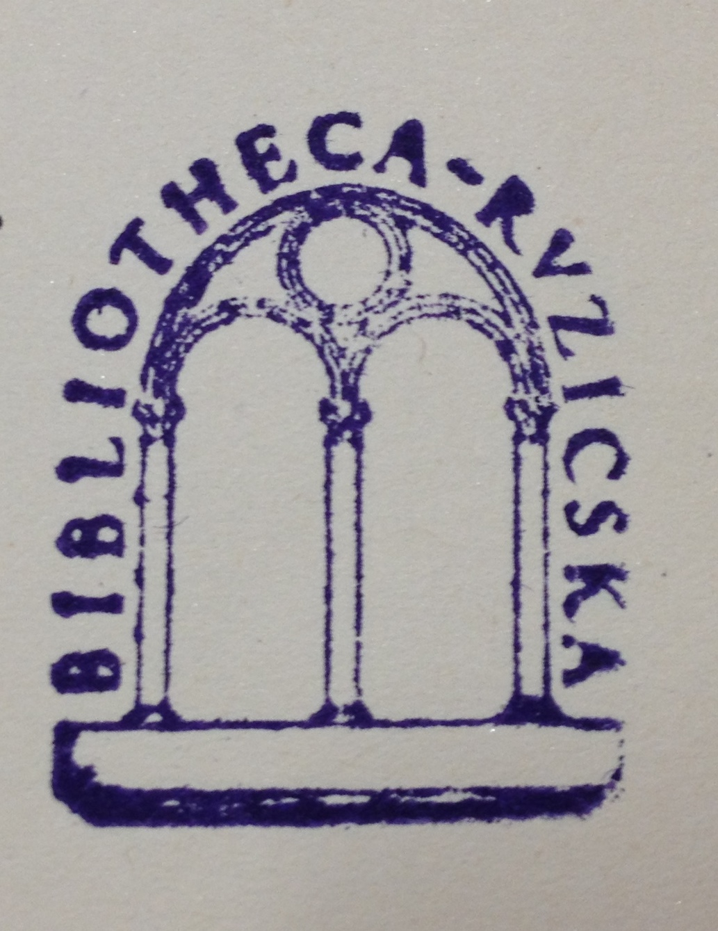 Ruzicska bookplate